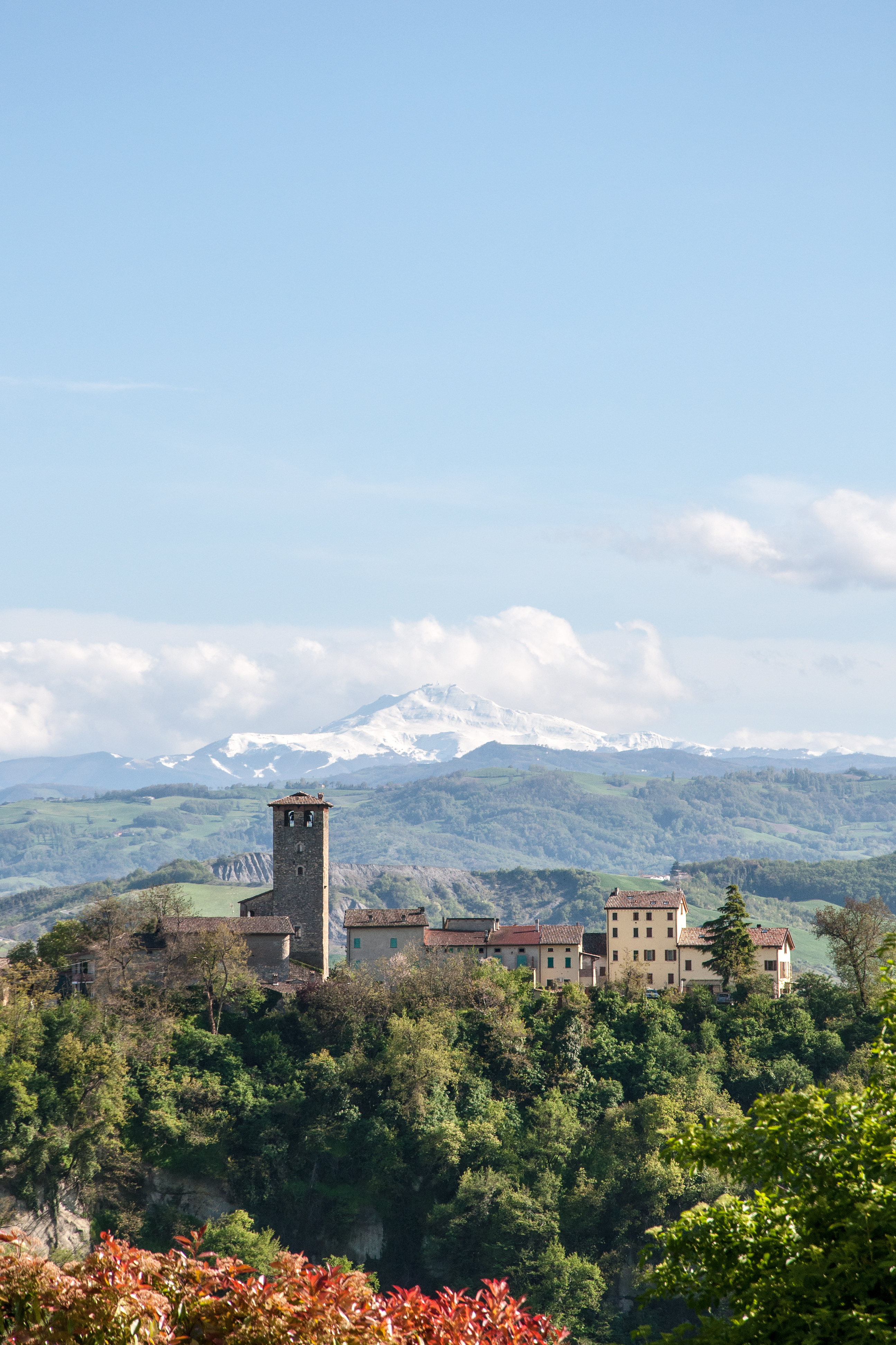 Montebabbio & Monte Cimone - Castellarano, Reggio Emilia, Italy